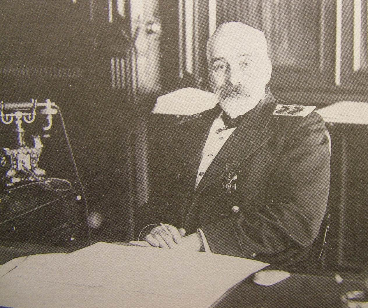 Ivan Grigorovich, Marin Minister of Imperial Russia